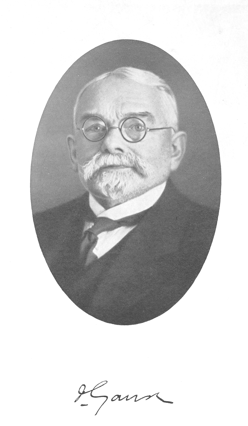 Sigbert Ganser (1853-1931)